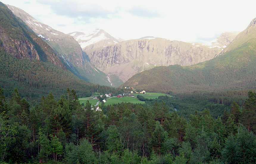 Rauma, from Isfjorden i Rauma and the valley Dalsbygda (Rauma)